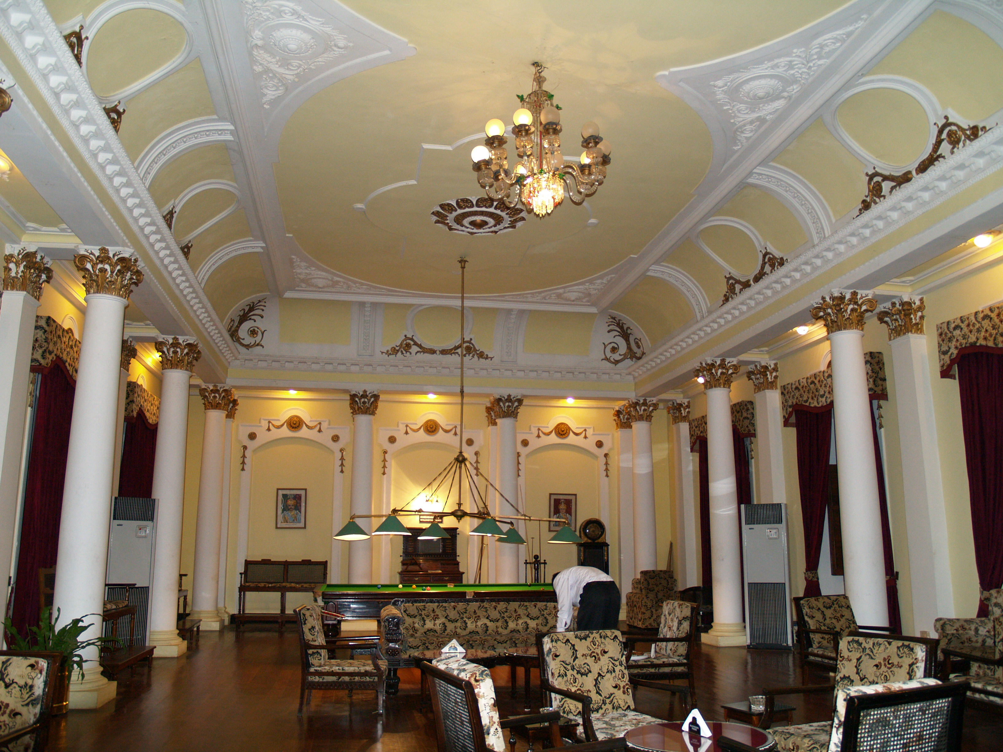 Billiards Room of Hotel